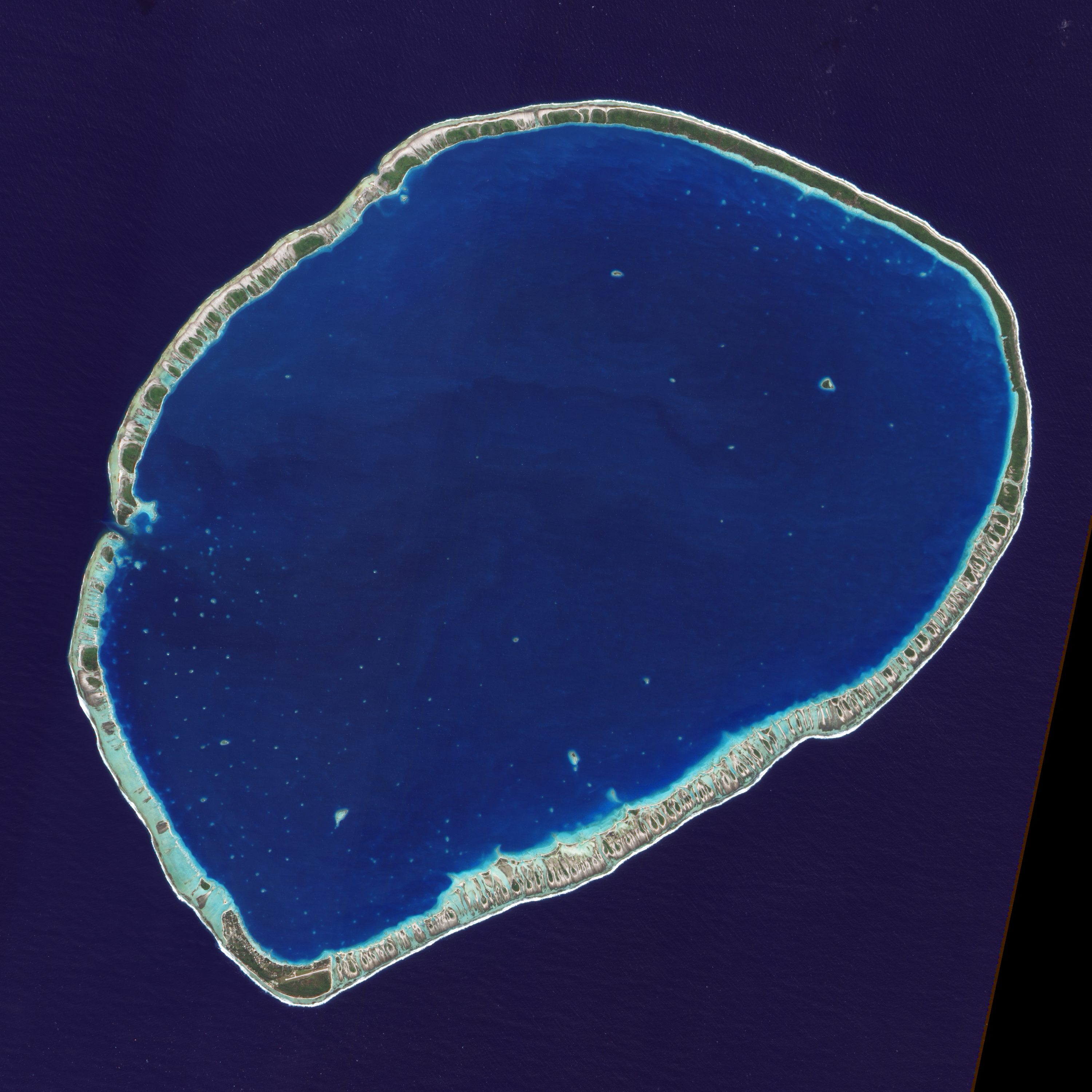 NASA EO-1 image of Tikehau Atoll, Tuamotu Archipelago, French Polynesia